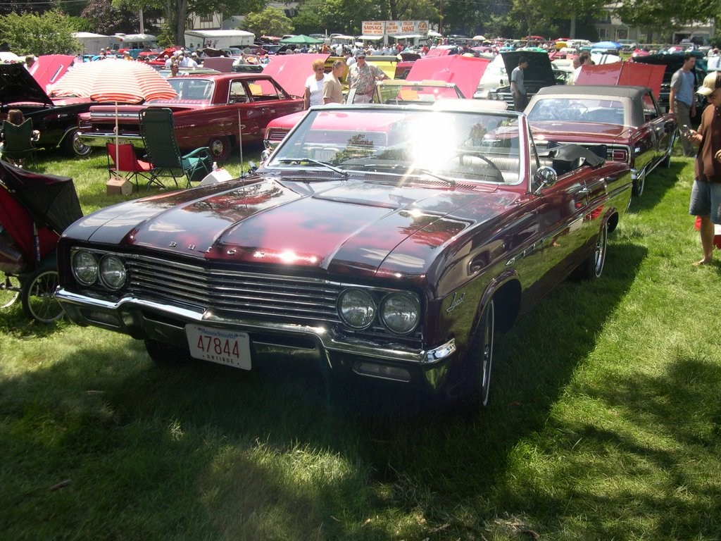 1965 Buick Special convertible